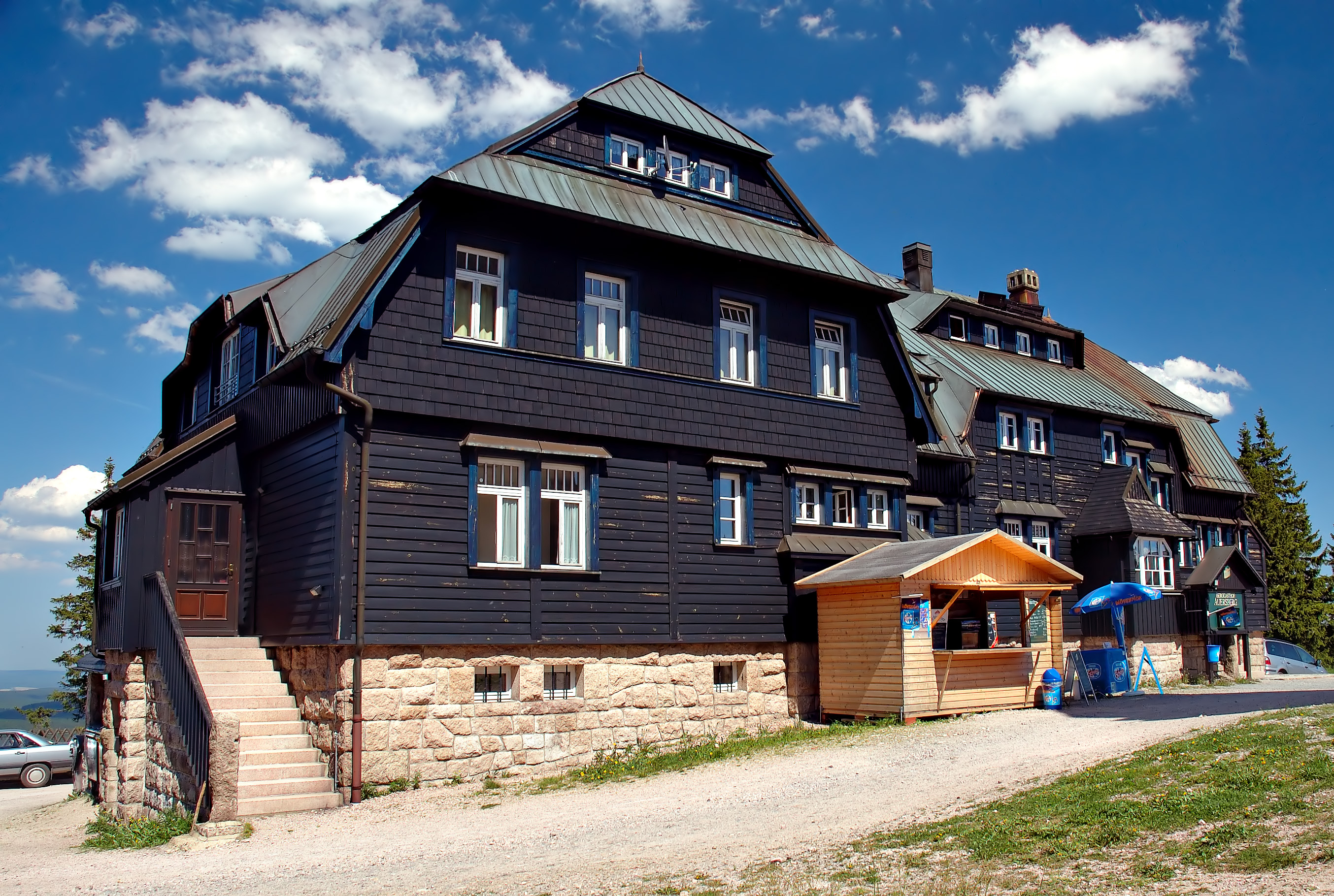 This image shows the mountain hotel at the Auersberg (Saxony, Germany).